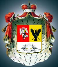 Coat of Arms of Repnin family